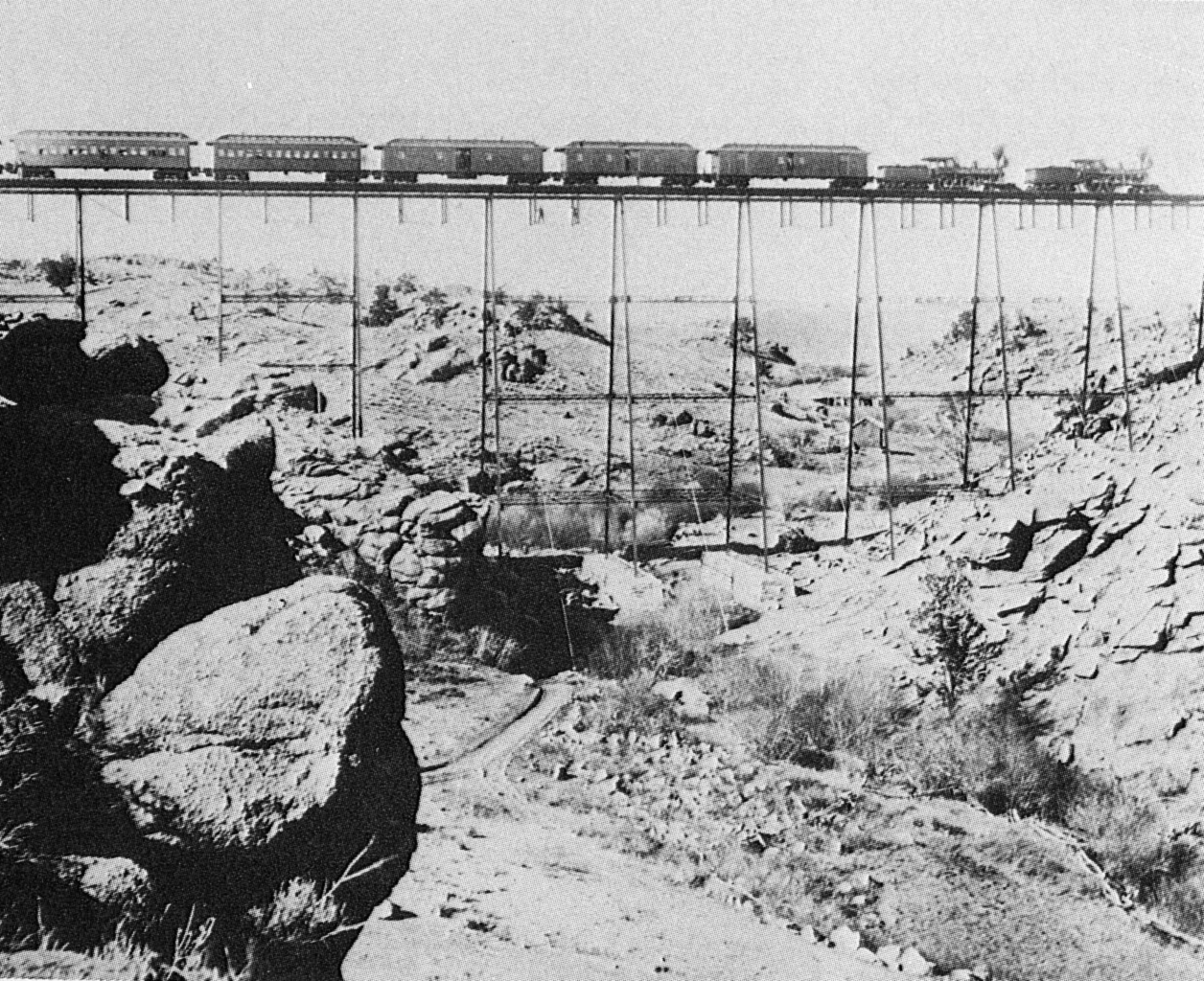 Train running on Dale Creek Iron Viaduct, Wyoming.